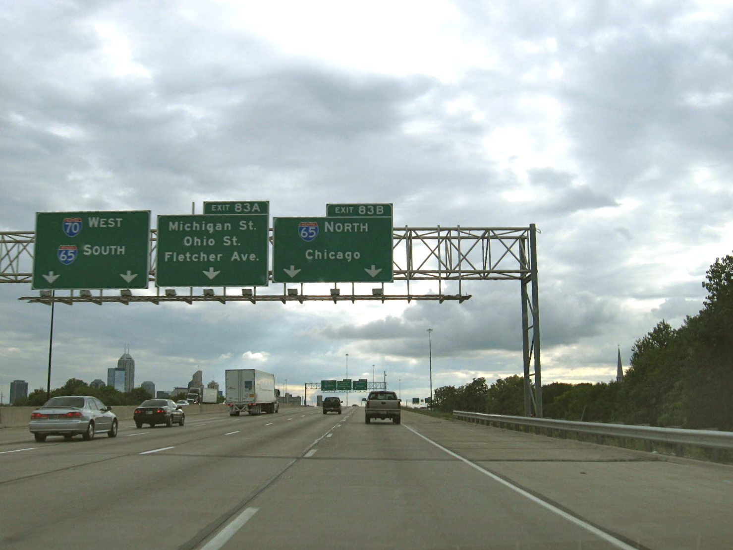 The final split for I-65 and I-70 in Indianapolis